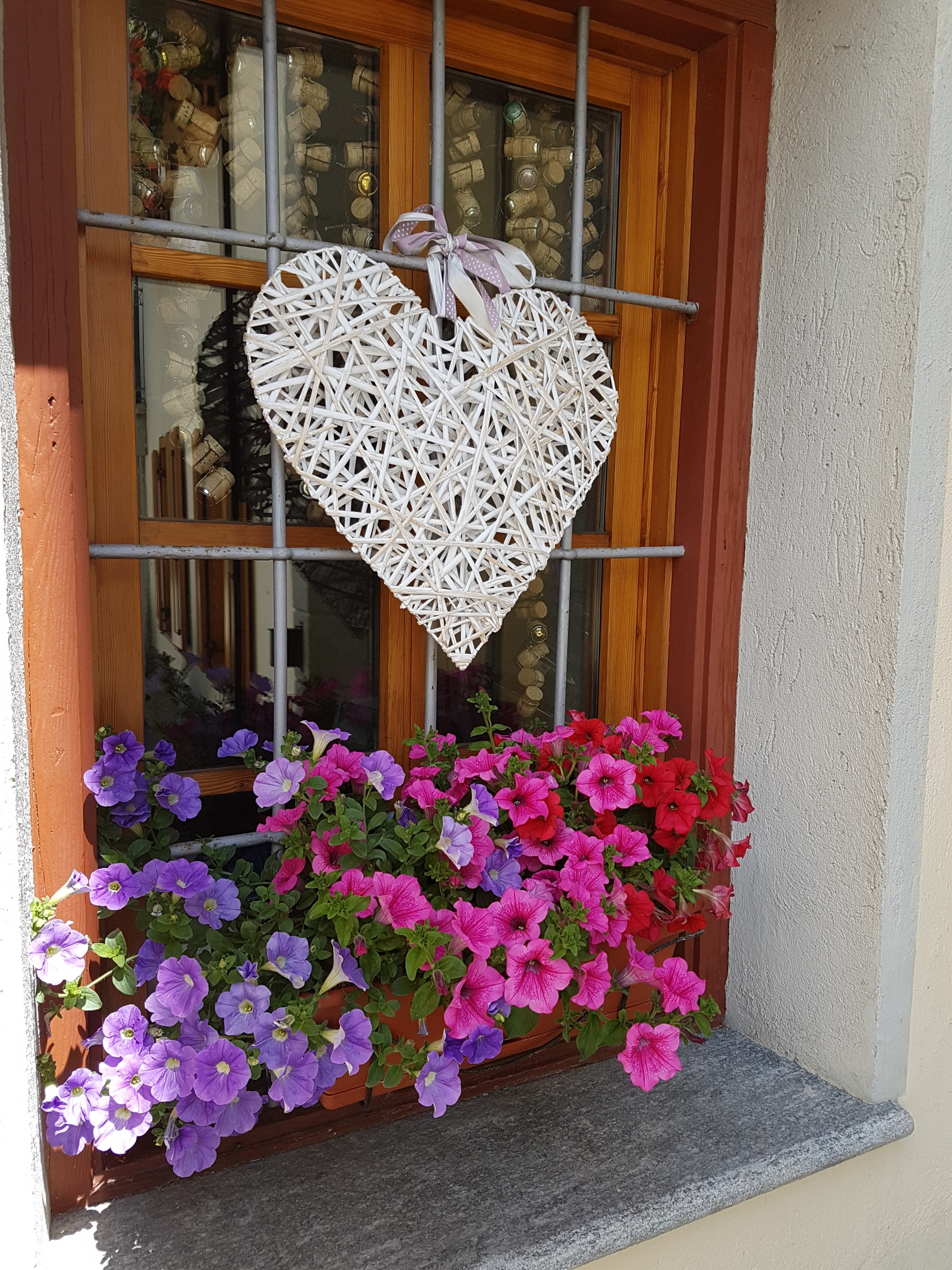 The window of a Walser house in Gressoney la Trinité, Aosta Valley Italy